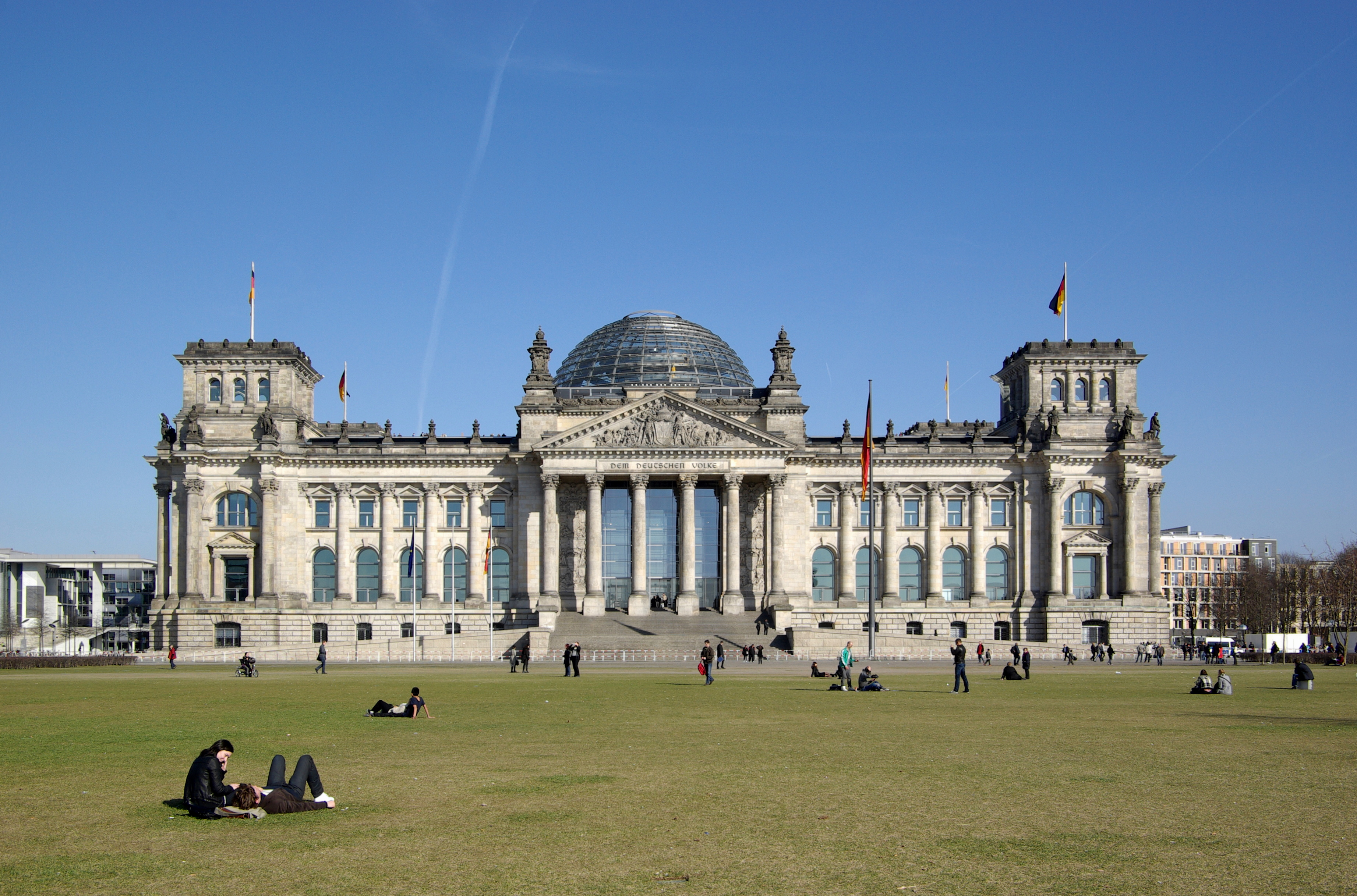 Berlin, Reichstag (building)